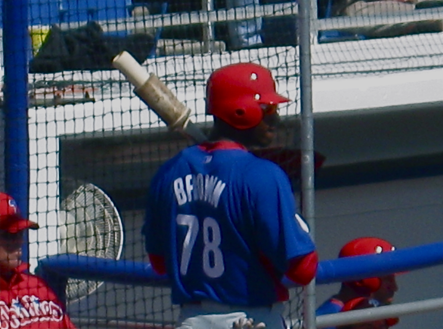 Domonic Brown